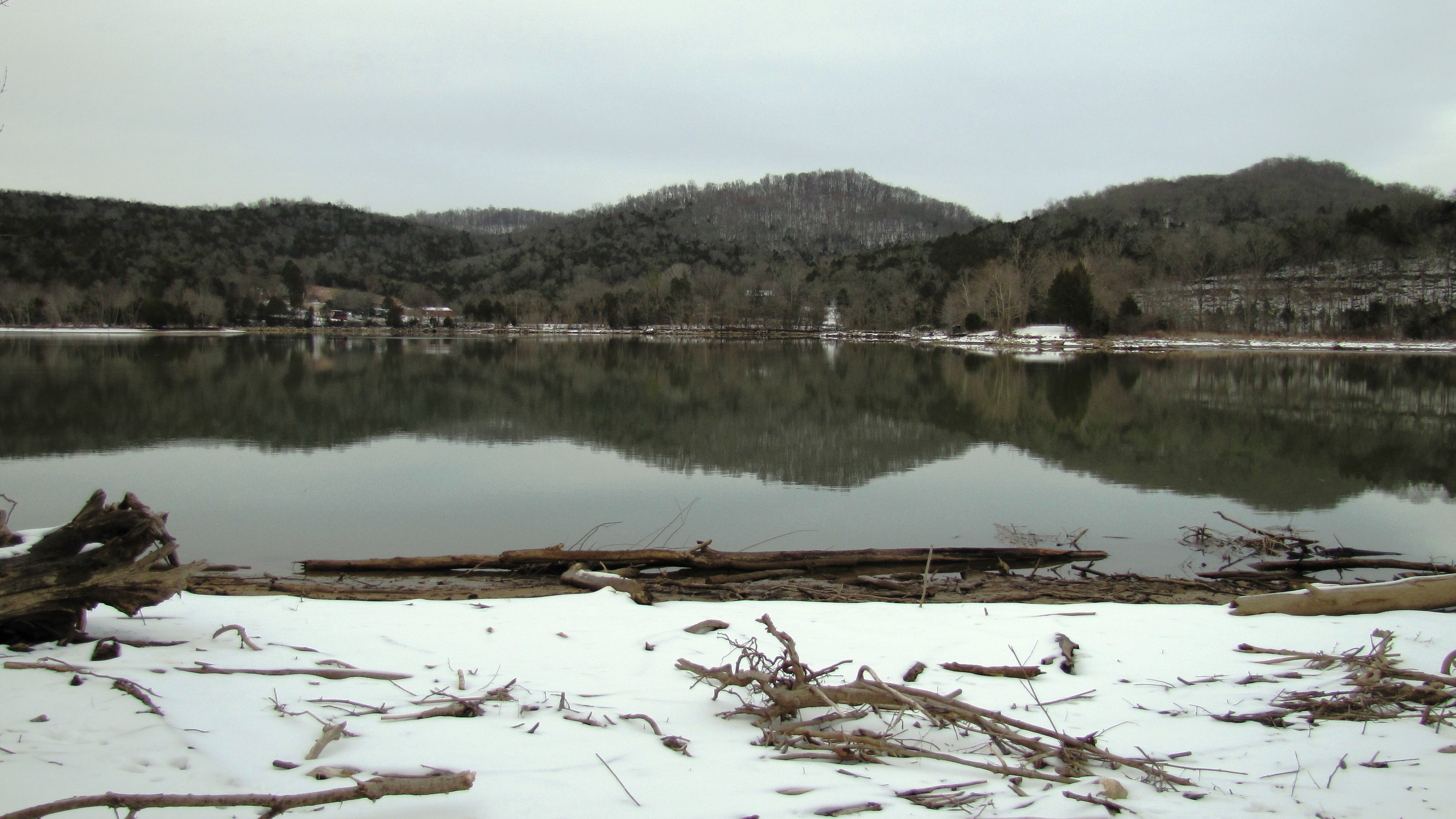 The site of Fort Blount Ferry (c. 1790-1970s) along the Cumberland River at the end of Smith's Bend Road in Jackson County, Tennessee, USA.